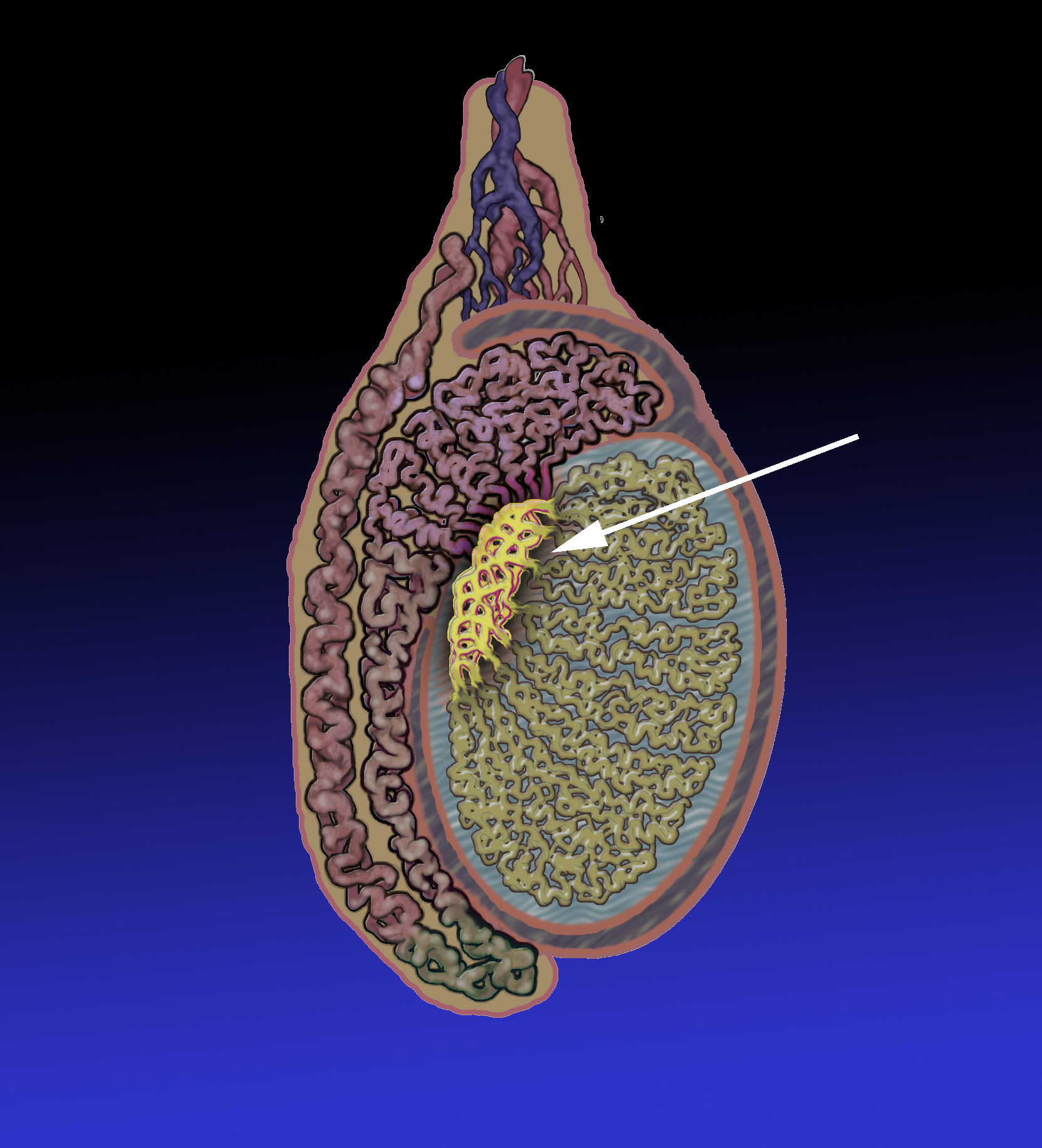 Illustration of the position of the rete testis within the adult human testicle